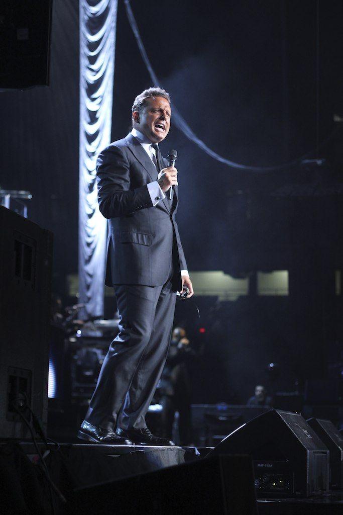 "People en Español" Festival 2012